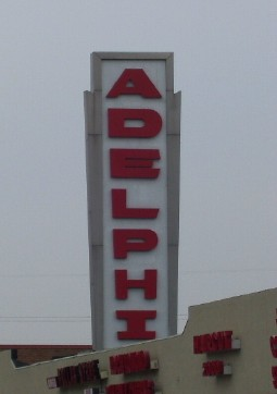 The iconic 1950's "Adelphi" sign at Adelphi Shopping Center, University Boulevard, Adelphi. Maryland.